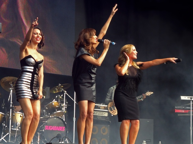 Chester Rocks Saturday